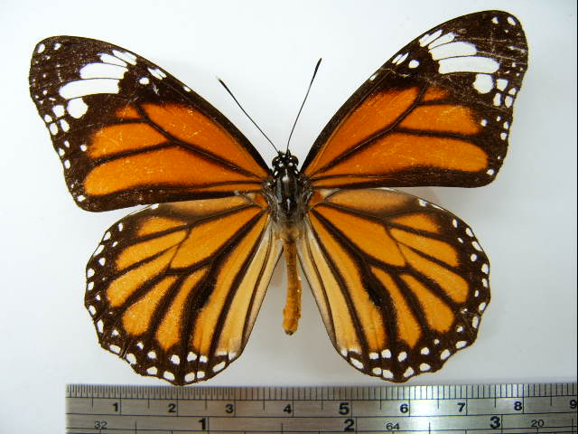 Kerry took this picture at his house on 16 July 2005 Scientific name: Danaus genutia ♂ Date of collection: 16 X 1996 Place of collection: Taipei city, Taiwan